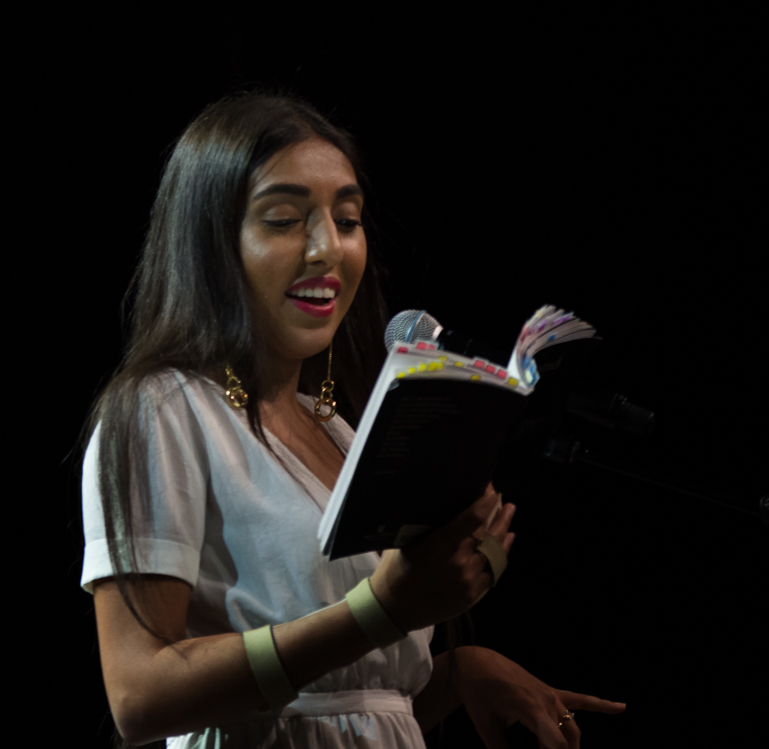 Feminist author, poet and artist, Rupi Kaur makes Vancouver her only Canadian stop on a whirlwind 2017 world tour. Called "the voice of her generation", Kaur's first book of poetry and prose was on the New York Times bestseller list.